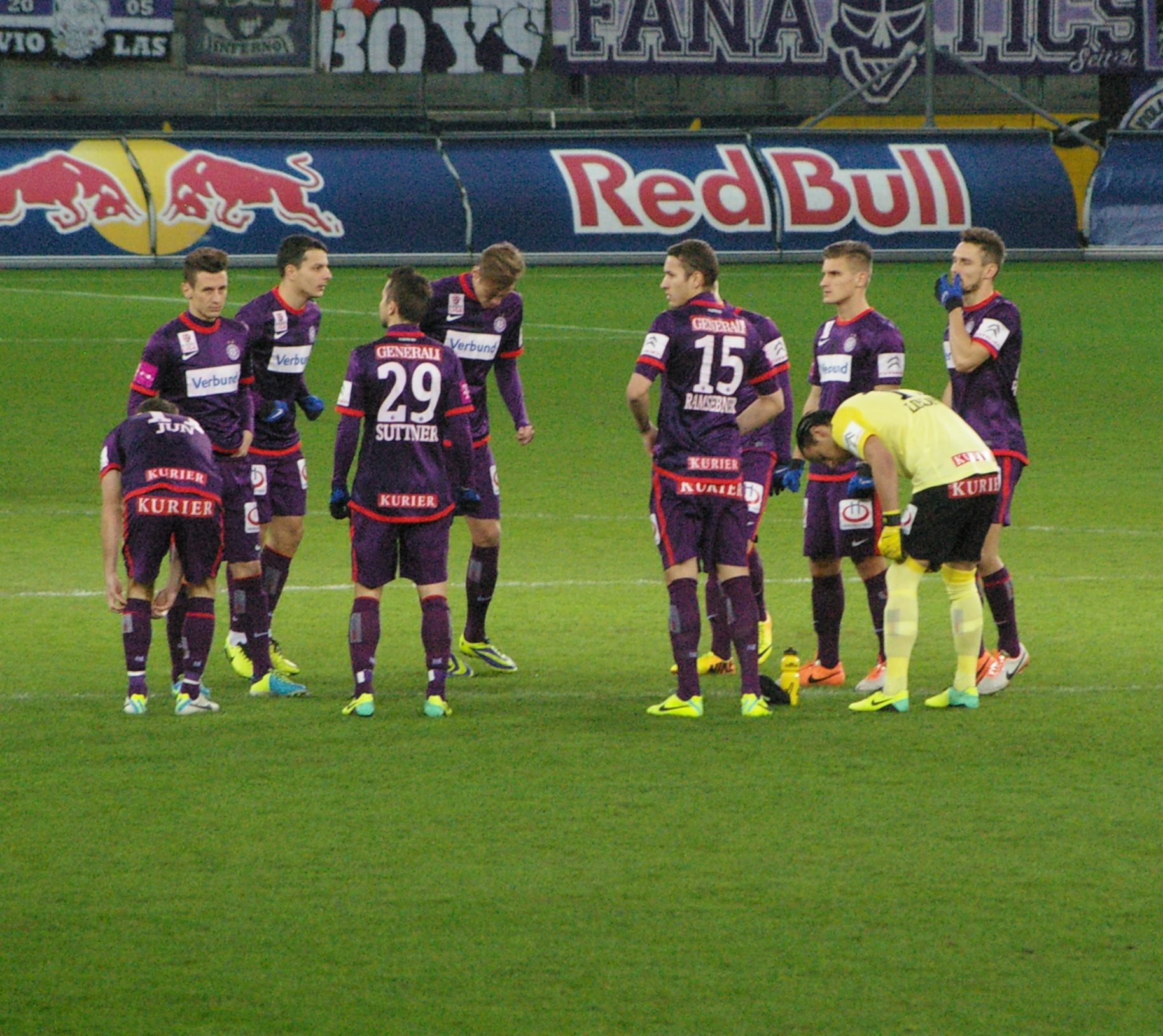 league match Austrian Bundesliga